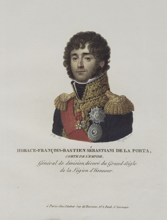 Official portrait of Horace Sébastiani (1772-1851)